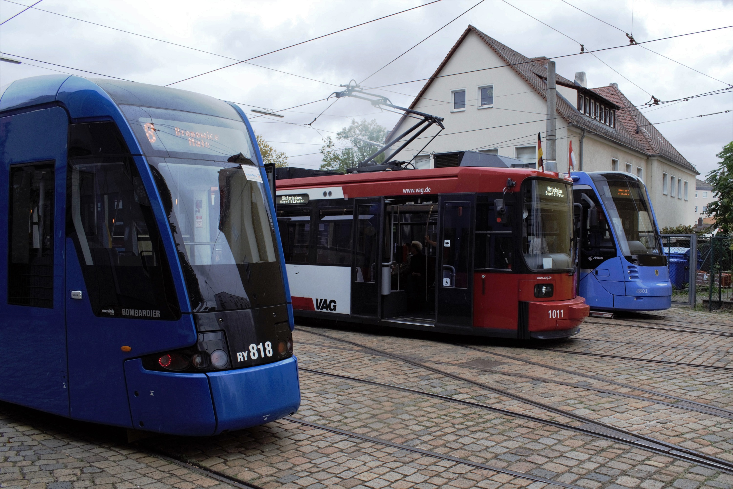 A Bombardier Flexity Classic from MPK Kraków, a refurbished ADtranz GT6N from VAG Nürnberg, and a Siemens Avenio T1.6 from MVG München, at the historic St. Peter tram depot in Nuremberg, 25. August 2018.